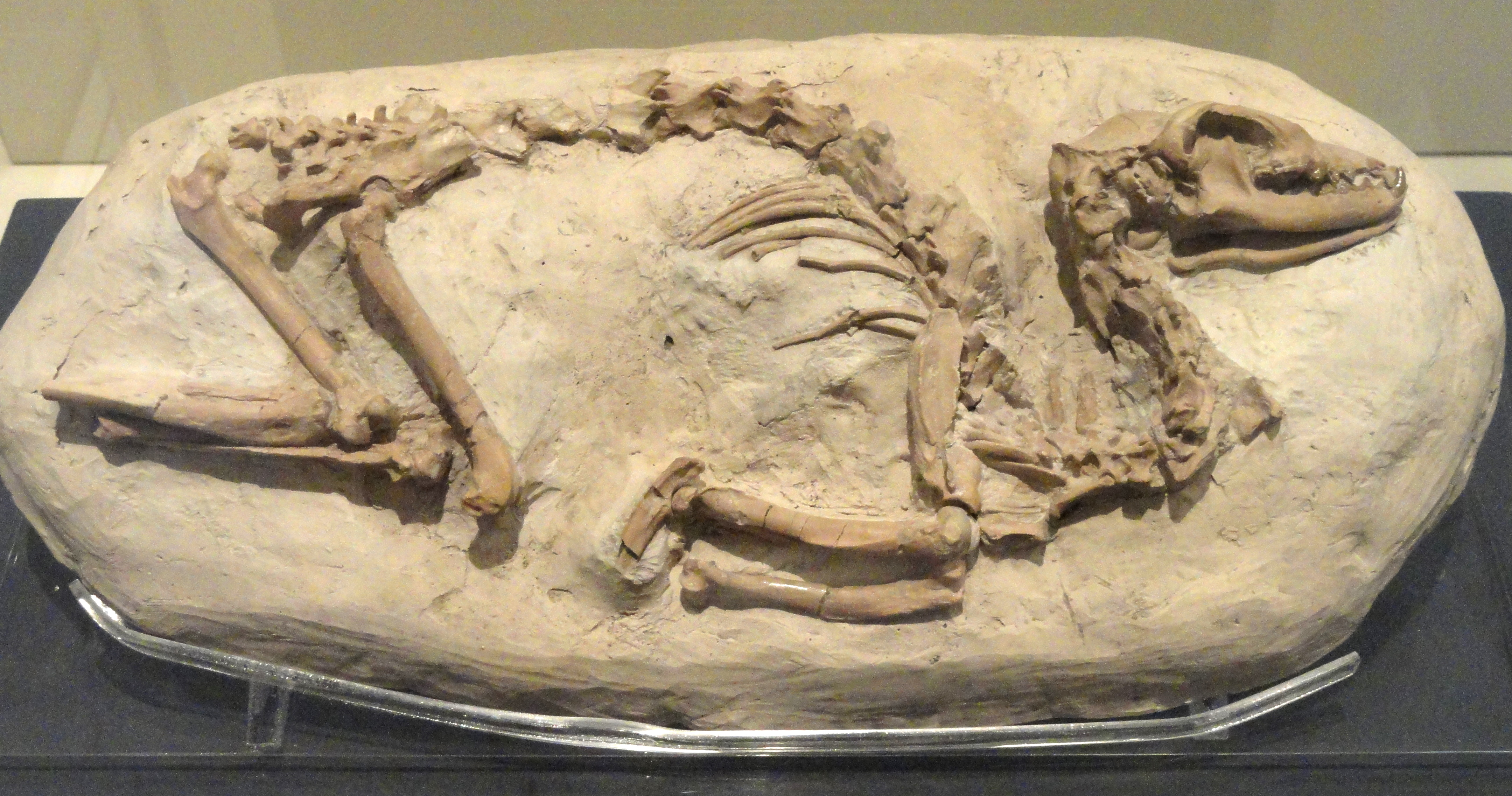 Exhibit in the Royal Ontario Museum, Toronto, Ontario, Canada. This exhibit is old enough so that it is in the public domain, and photography was permitted in the museum. I took this photograph and release it into the public domain.